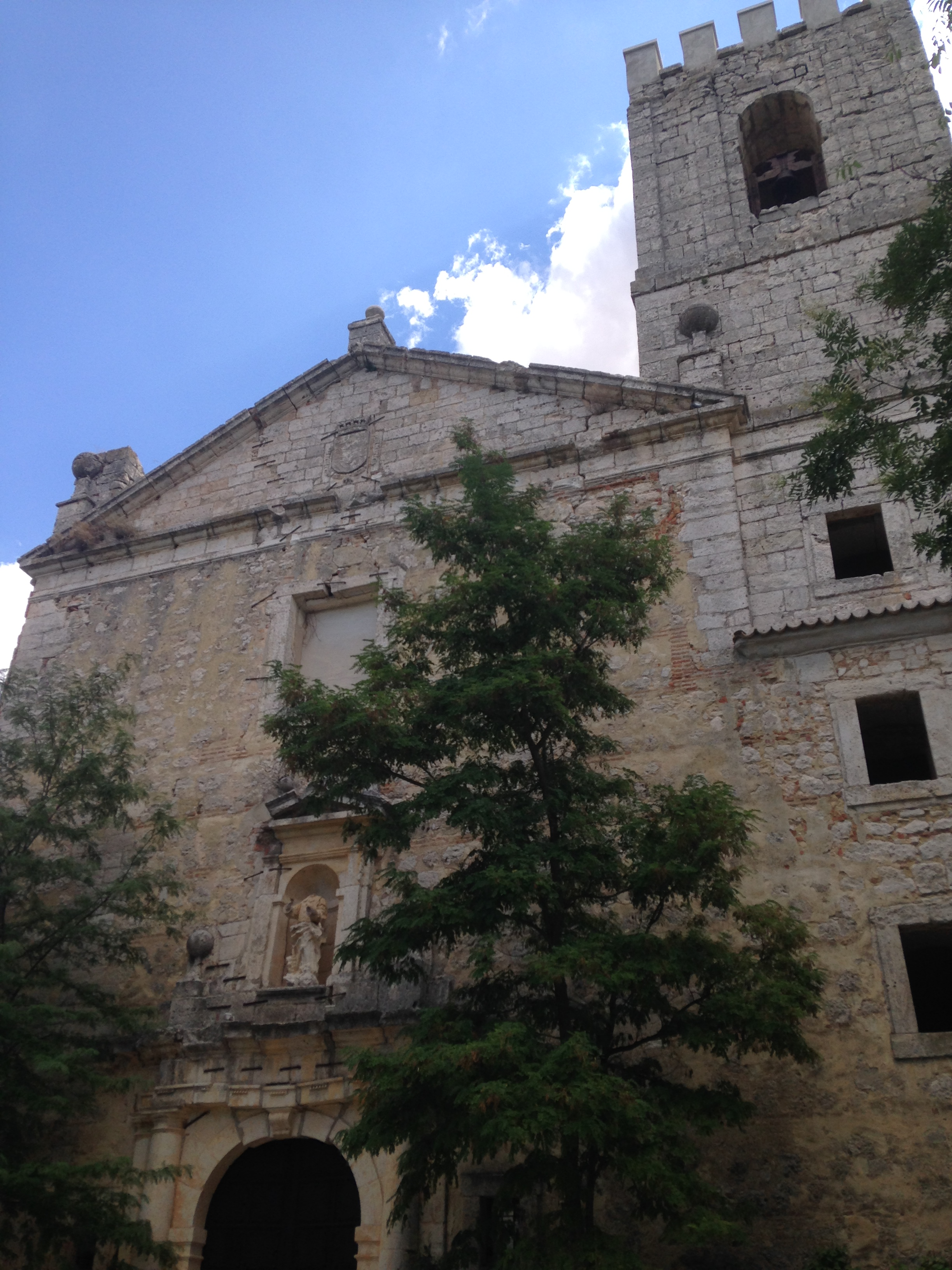 Iglesia del Monasterio de Lupiana